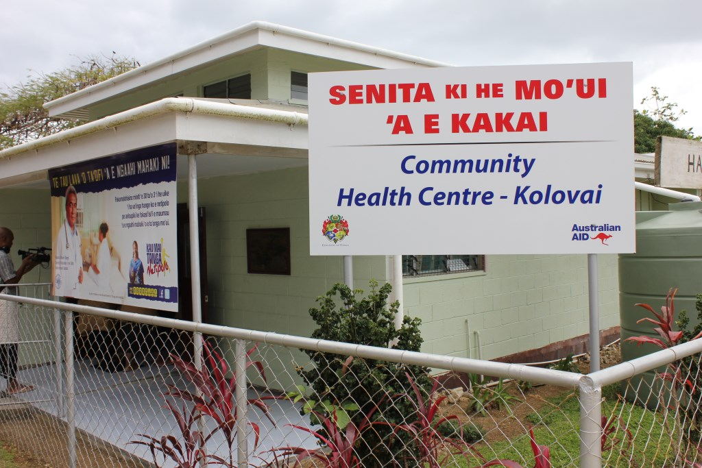 The Kolovai Health Centre in Tonga underwent a full restoration with support from the Australian Government. The centre, which reopened its doors in October 2013, provides more than 550 households with access to high-quality medical facilities. Photo: Louise Scott / DFAT